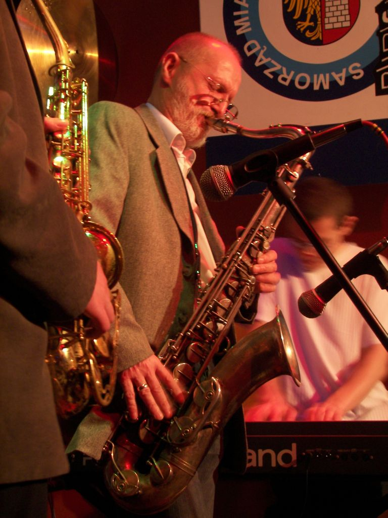 Muniak in SJC 2007-03-15